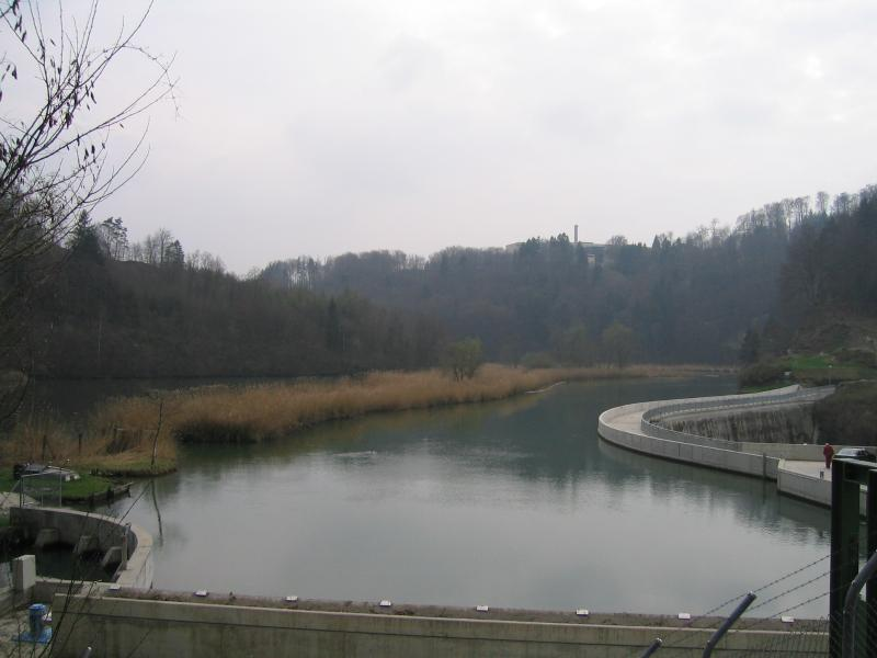 Lac des Pérolles, Switzerland.